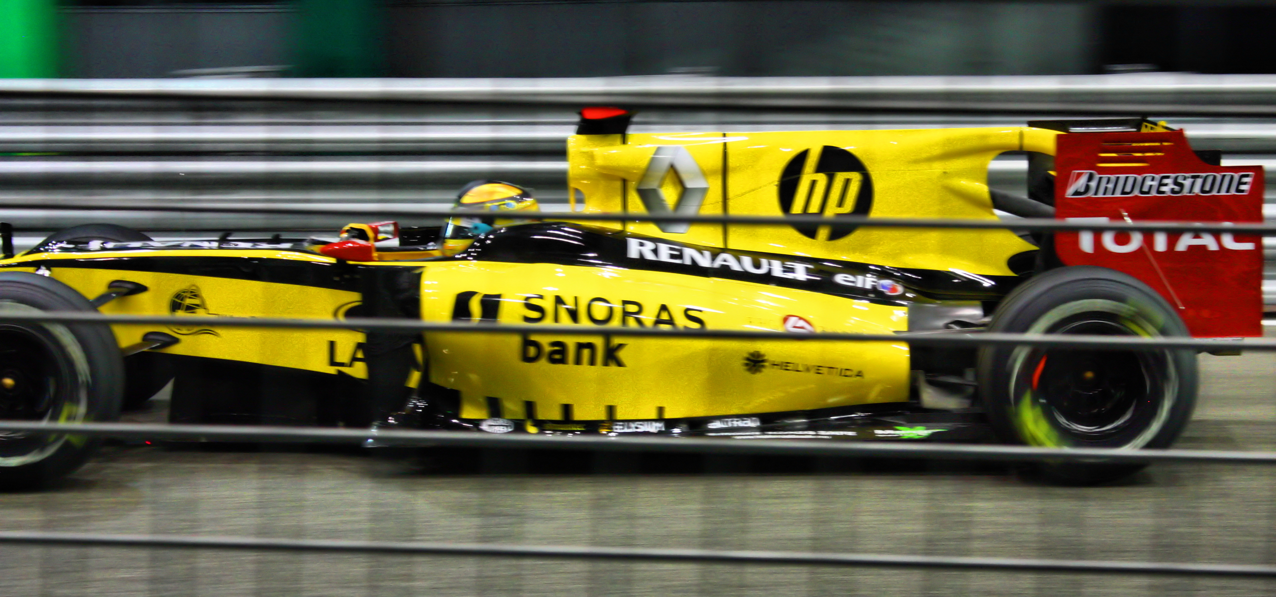 Robert Kubica driving for Renault F1 at the 2010 Singapore Grand Prix.